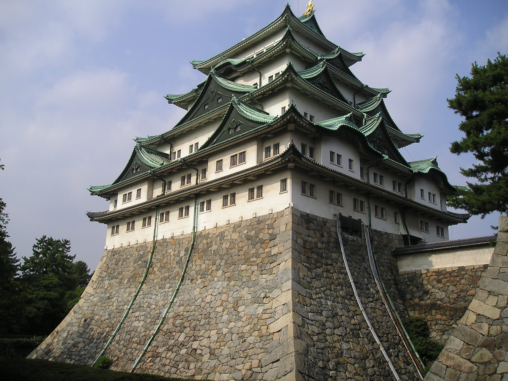 Nagoya Castle, Japan